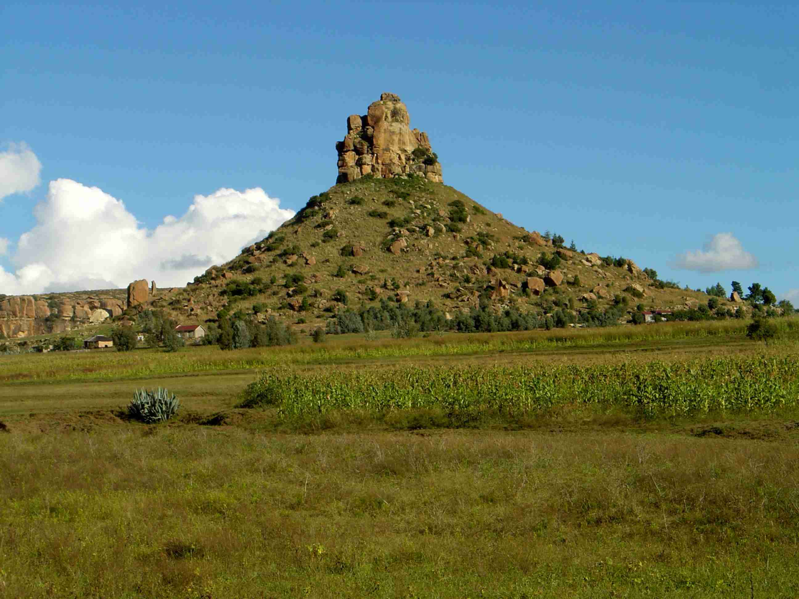 Qiloane near Thaba Bosiu; Lesotho